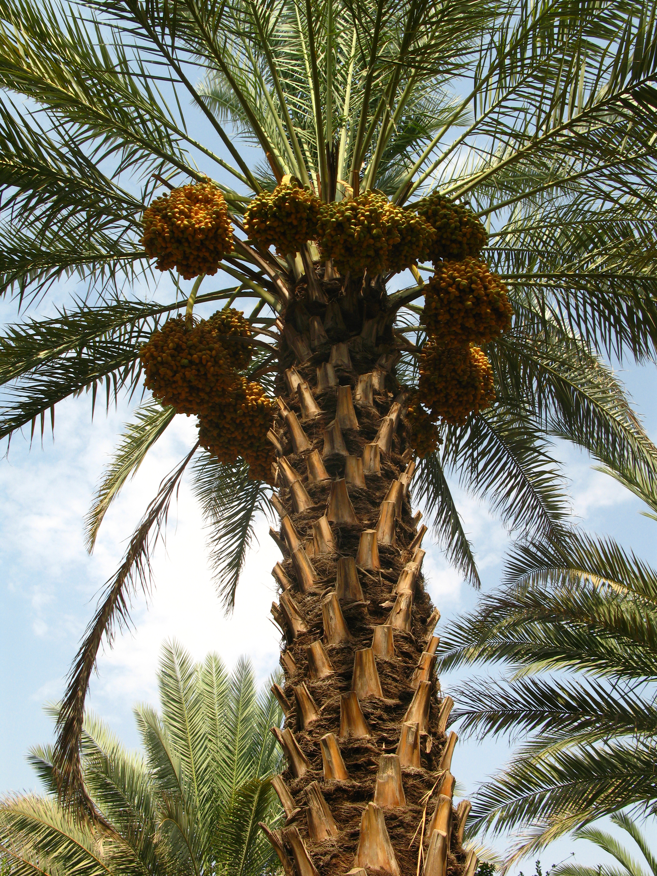 خرمای کبکاب یکی از انواع خرما ایرانی است که در این تصویر،عکس درخت خرمای کبکاب است